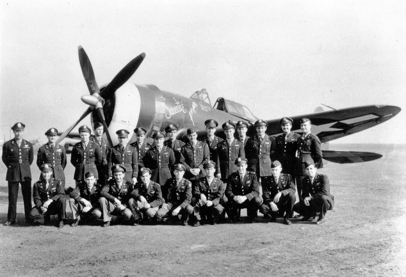 Pilots of the 486th Fighter Squadron, 352nd Fighter Group, in front of P-47 Thunderbolt (PZ-R, serial number 42-8412), named "Sweetie" at Bodney air base in March 1944. Left to right, top row: Lieutenant Woodrow W. Anderson, Lieutenant Stanley G. Miles, Lieutenant Frank A. Cutler, Lieutenant Martin E. Corcoran, Lieutenant Donald Y. Whinnem. Left to right, middle row: Lieutenant-Colonel Luther H. Richmond, Captain Stephen W. Andrew, Lieutenant Thomas W. Colby, Lieutenant Henry J. Miklajyck, Captain Edward J. Gignac, Lieutenant Alfred L. Marshall, Lieutenant Alton J. Wallace, Lieutenant Robert C. Frascotti, Lieutenant Donald H. Higgins, Major Willie O. Jackson. Left to right, front row: Lieutenant Lloyd A. Rauk, Lieutenant Warren H. Brashear, Captain Franklyn N. Green, Lieutenant Donald W. McKibben, Lieutenant Theodore P. Fahrenwald, Lieutenant Robert C. MacKean, Lieutenant Edwin L. Heller, Lieutenant Joseph L. Gerst.